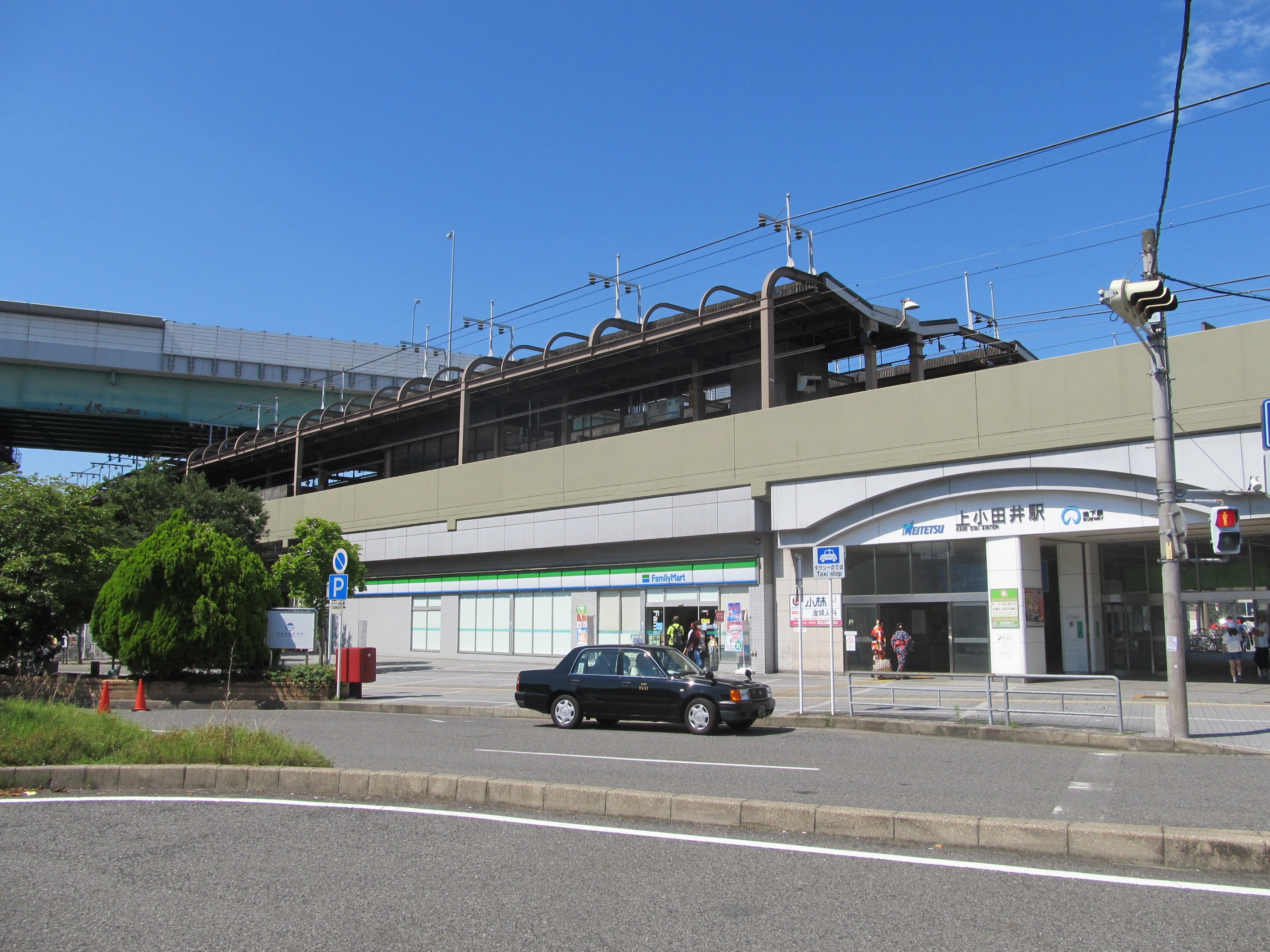 Nagoya Railroad Inuyama Line / Transportation Bureau City of Nagoya, Nagoya Municipal Subway Tsurumai Line Kami Otai Station South Gate